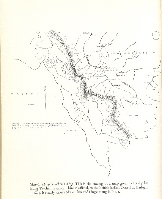 Hung Ta Chen’s map. This is the faithful representation of a map officially given by Hung Ta Chen, a senior Chinese Government official, to the British Indian consul at Kashgar, in 1893. The Chinese imperial map clearly depicts the major part of Lingzi Thang, Aksai Chin and Raskam areas in Kashmir as part of Kashmir itself during the relevant period. The map was created by Hung Ta-Chen and it shows that the portion of Aksai Chin to the west of the Macartney-MacDonald line was an integral part of Kashmir and not disputed. The map is reproduced in all “noteworthy” books dealing with India’s border issue, including “Himalayan Frontiers” by Dorothy Woodman published inter alia by London Barrie and Rockliff The Cresset Press 1969.